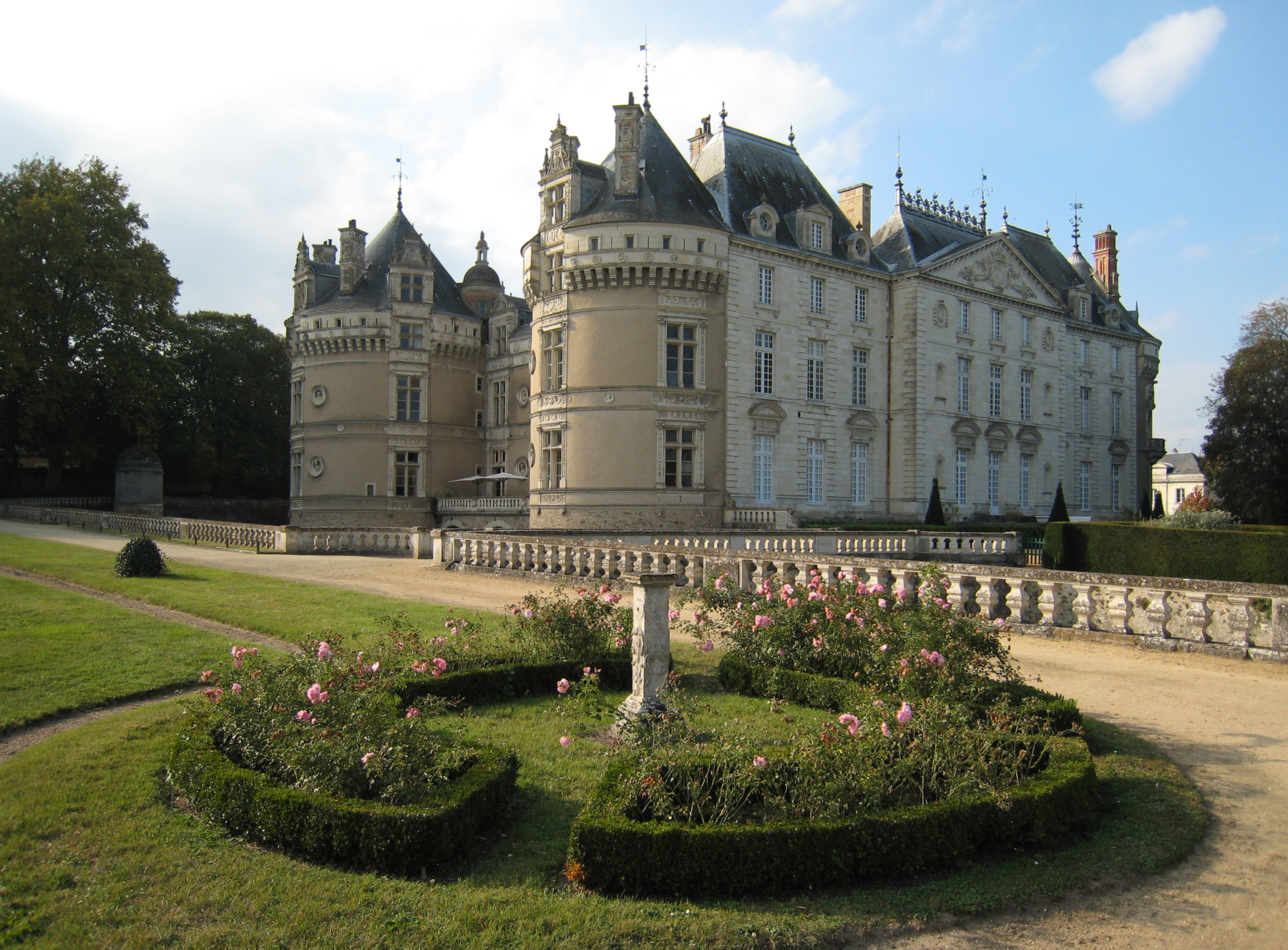 Castle Le Lude, located on the river Loir (not Loire) in the county of Sarthe/France